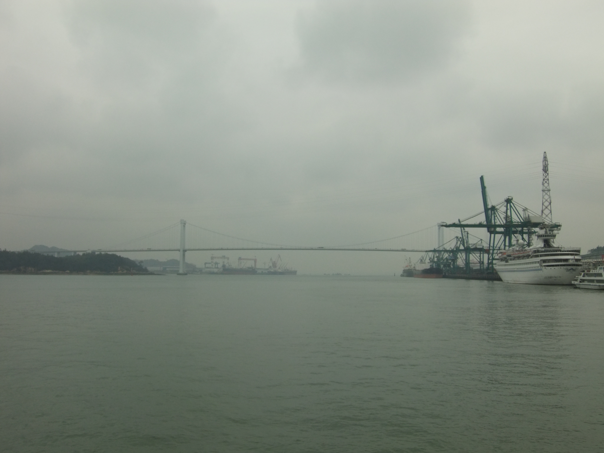 Haicang Bridge, seen from a ferry boat off the Dongdu Ferry Terminal